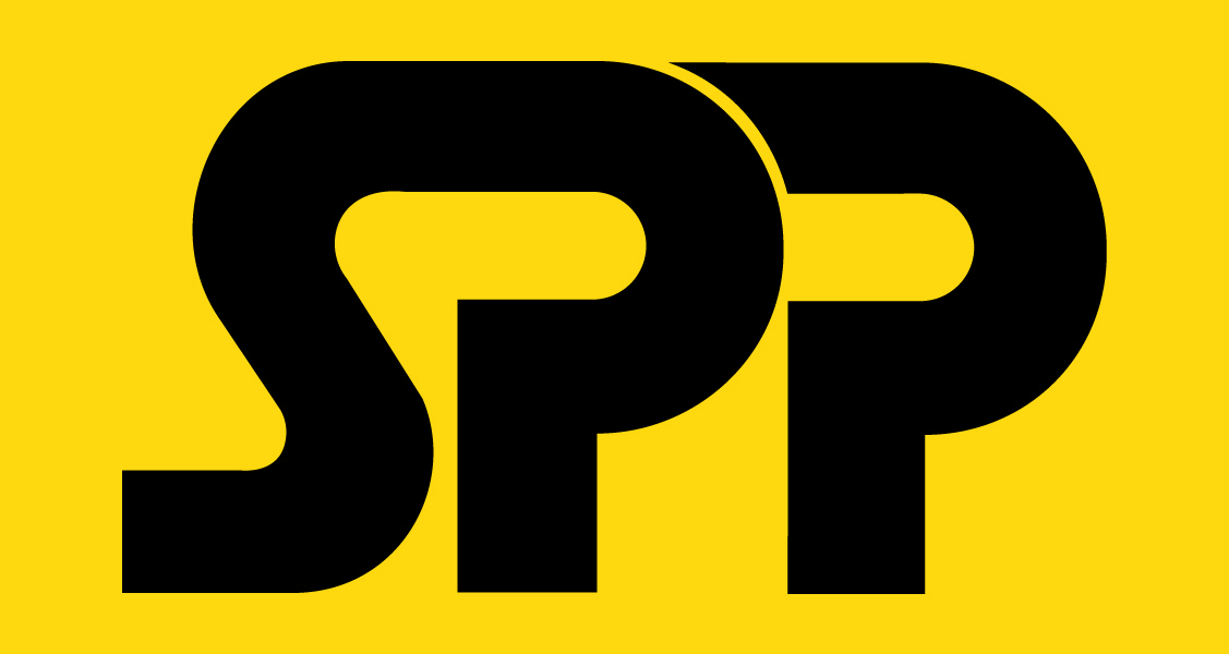 SPP logo